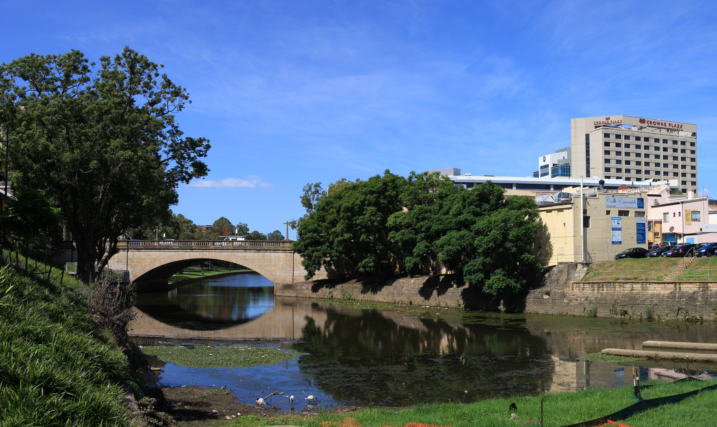 Parramatta, New South Wales